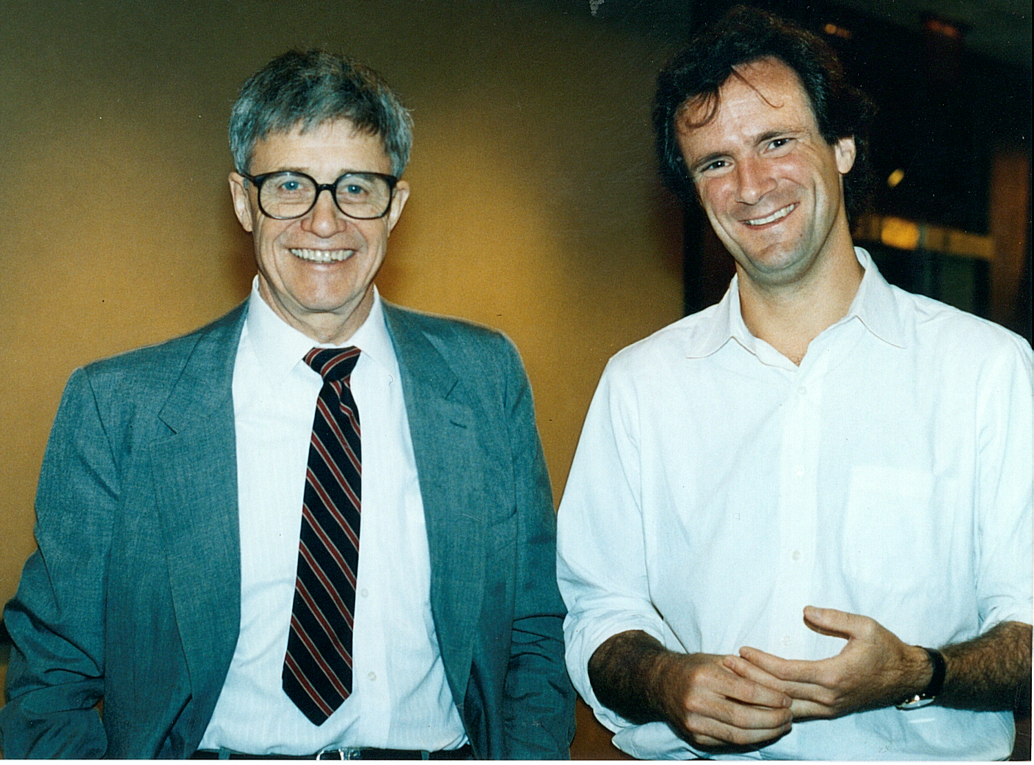 Kenneth E. Iverson and Arthur T. Whitney. Permission granted by Rob Hodgkinson, who created the photo.